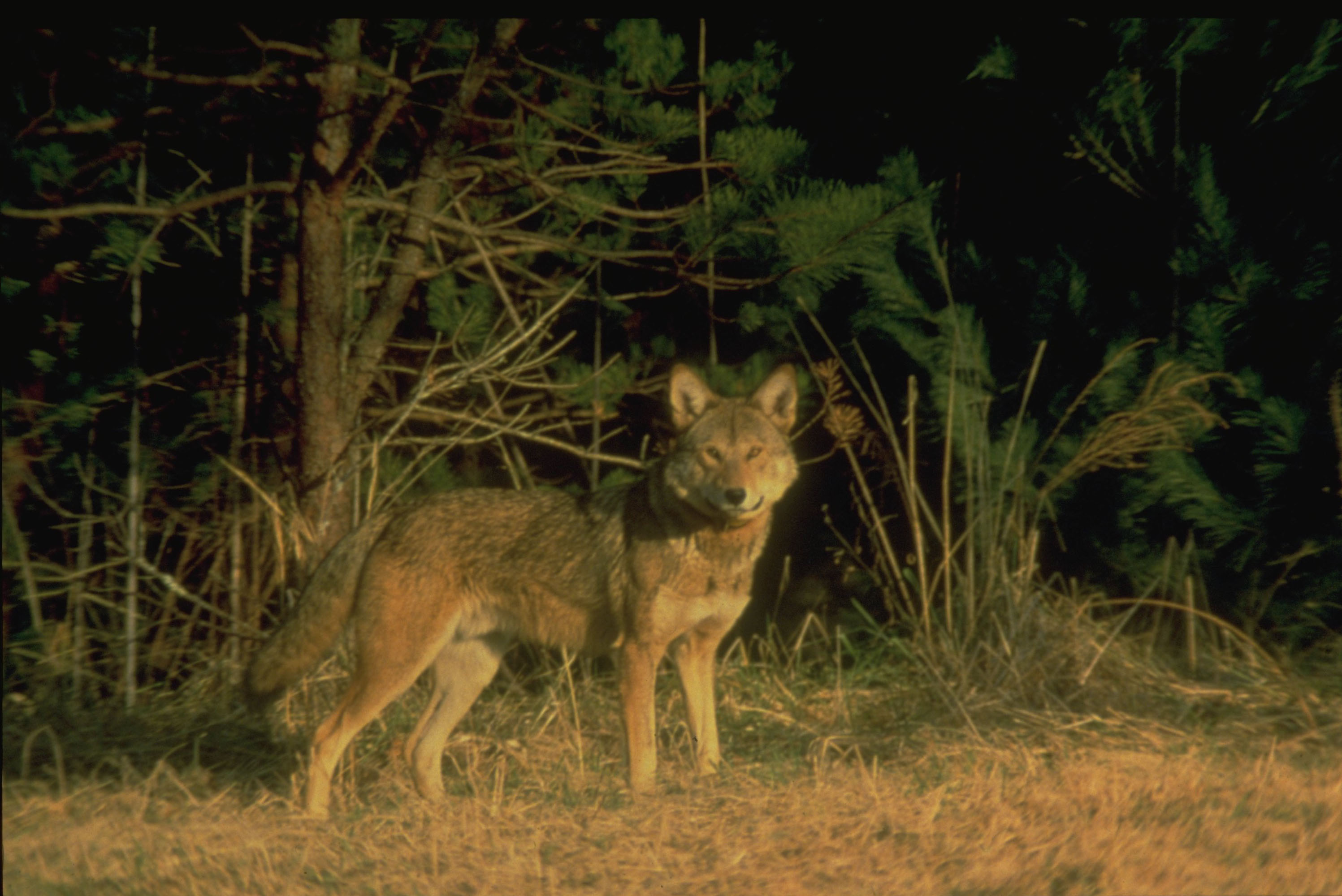 Photo credit: B. Crawford/USFWS 2002